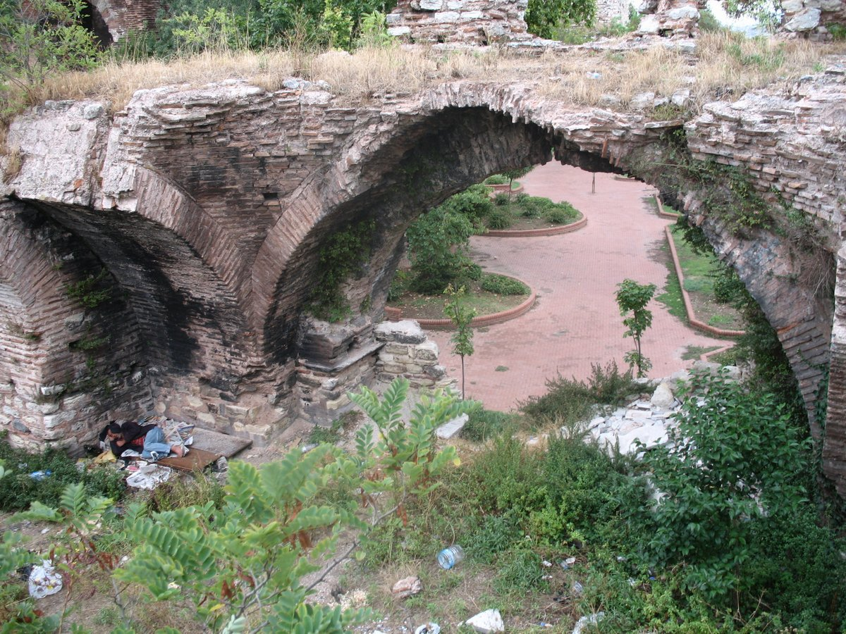 The Palace of Bucoleon.